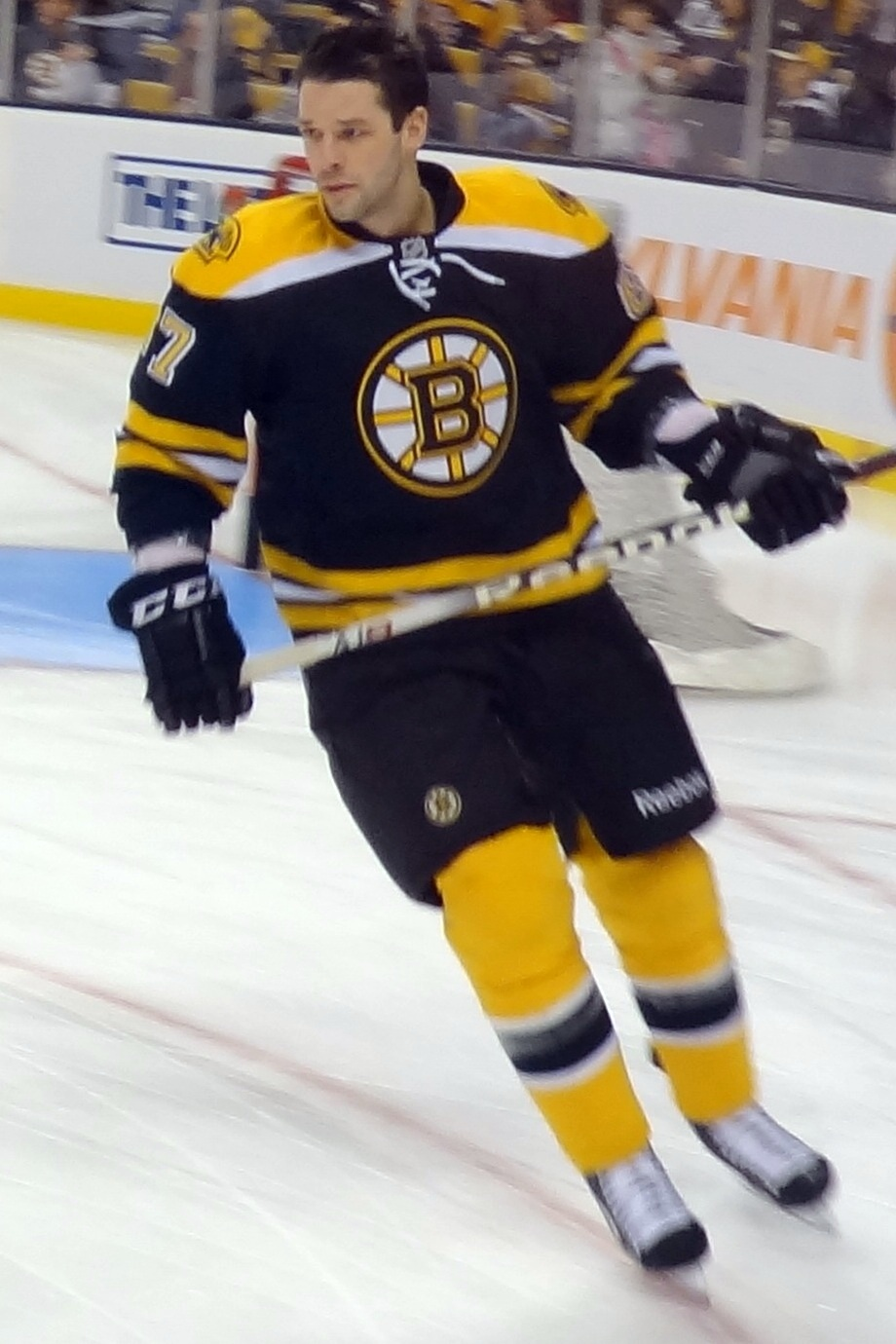 I took this picture of Benoît during pre-game warm-ups on Jan 7, 2012 at the TD Garden, Boston, MA.